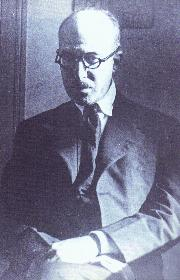 Last picture before is death.